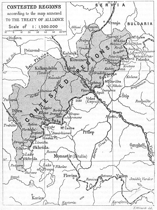 Contested Regions in Macedonia